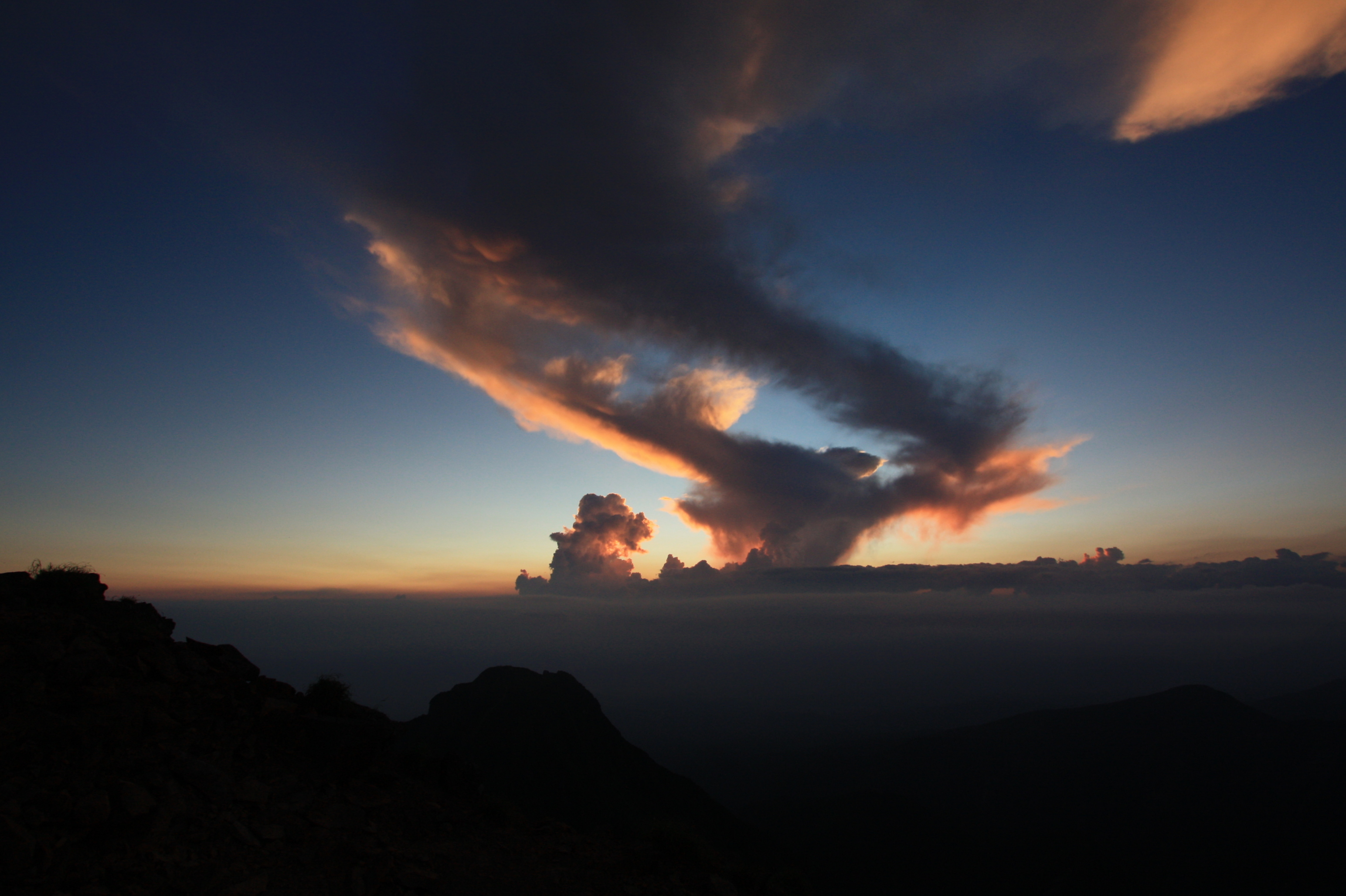 Sun, when anticrepuscular rays were observed at Mount Aka